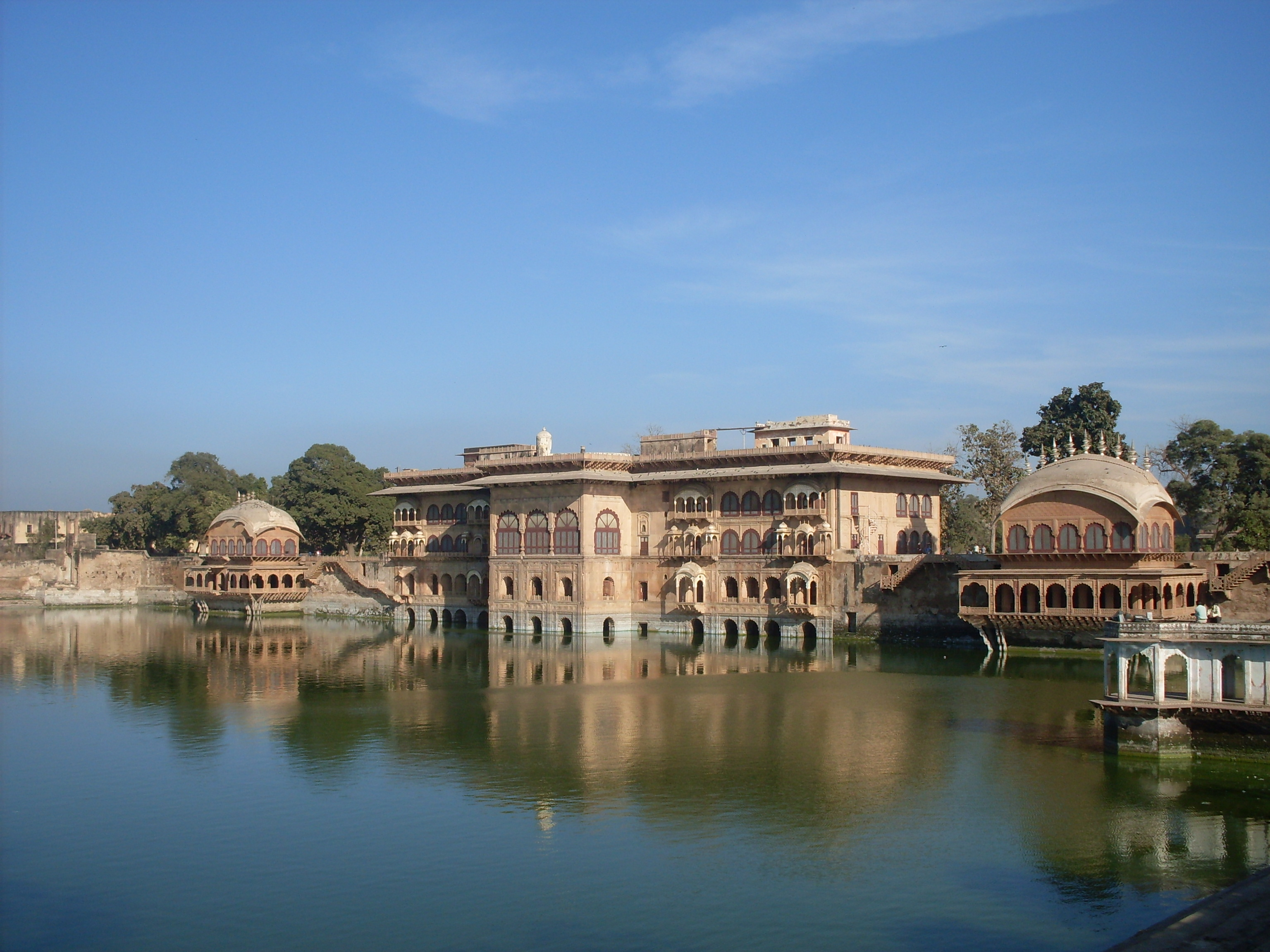 The Jal Mahal or Water Palace at Deeg in Rajasthan, India